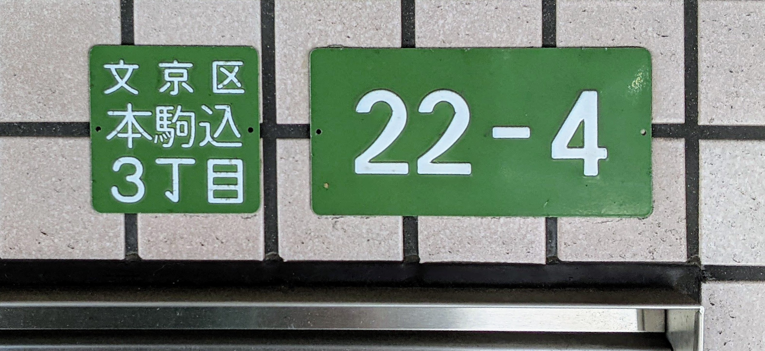 The plate of residential address indication (Japan) made of aluminum with blue paint. Partially deleted due to private information in chō-chōme-banchi-gō ordering. Left part 1/3 is town name plate and rest right 2/3 is residence number plate.